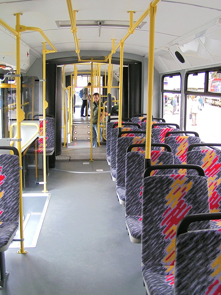 Interior of SATRA III tram